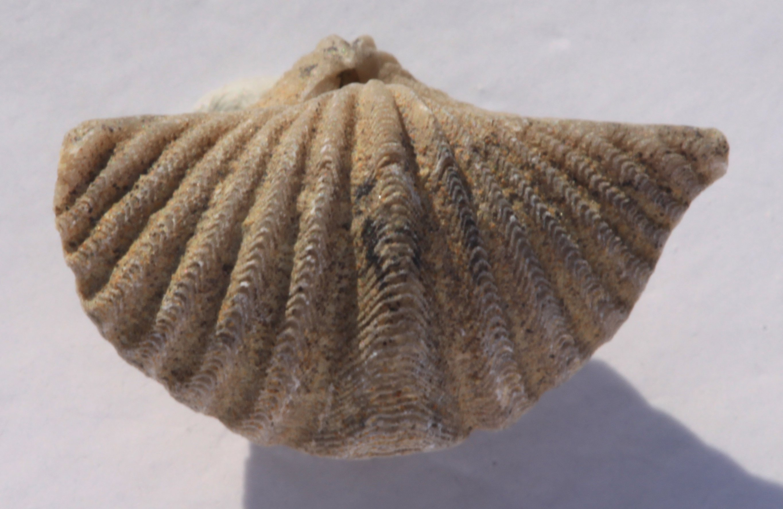 A Punctospirifer kentuckyensis lampshell, Order Spiriferinida, Family Punctospiriferidae, 19mm along the axis, brachial valve, collected at the Harpersville Formation near Breckenridge, Texas, USA, from the Carboniferous (Pennsylvanian)